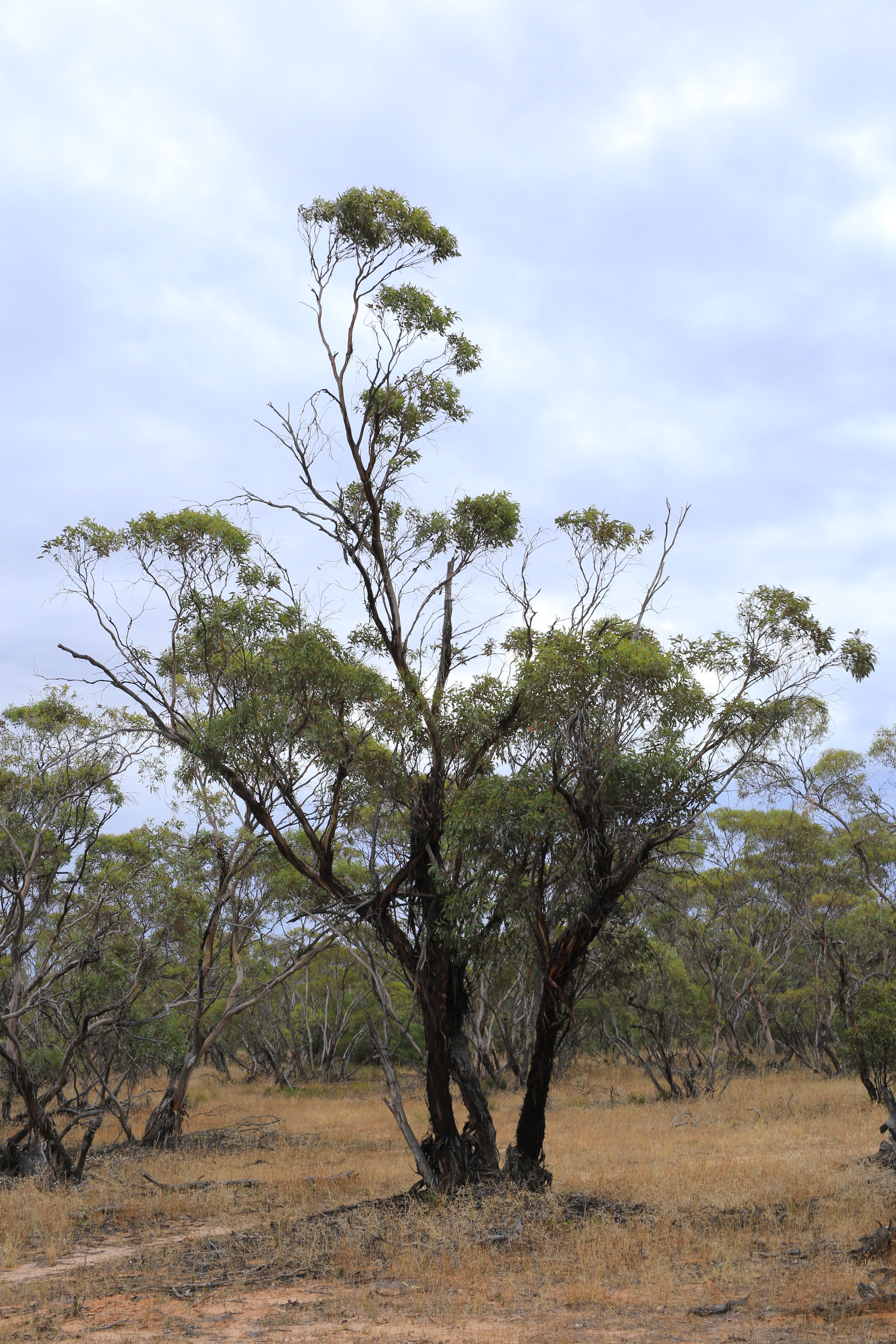 Eucalyptus dumosa A.Cunn. ex J.Oxley, Wyperfeld National Park, VIC, 23 January 2017